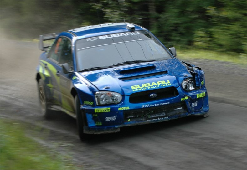 Chris Atkinson driving his Subaru Impreza WRC2005 at the 2005 Rally Finland.